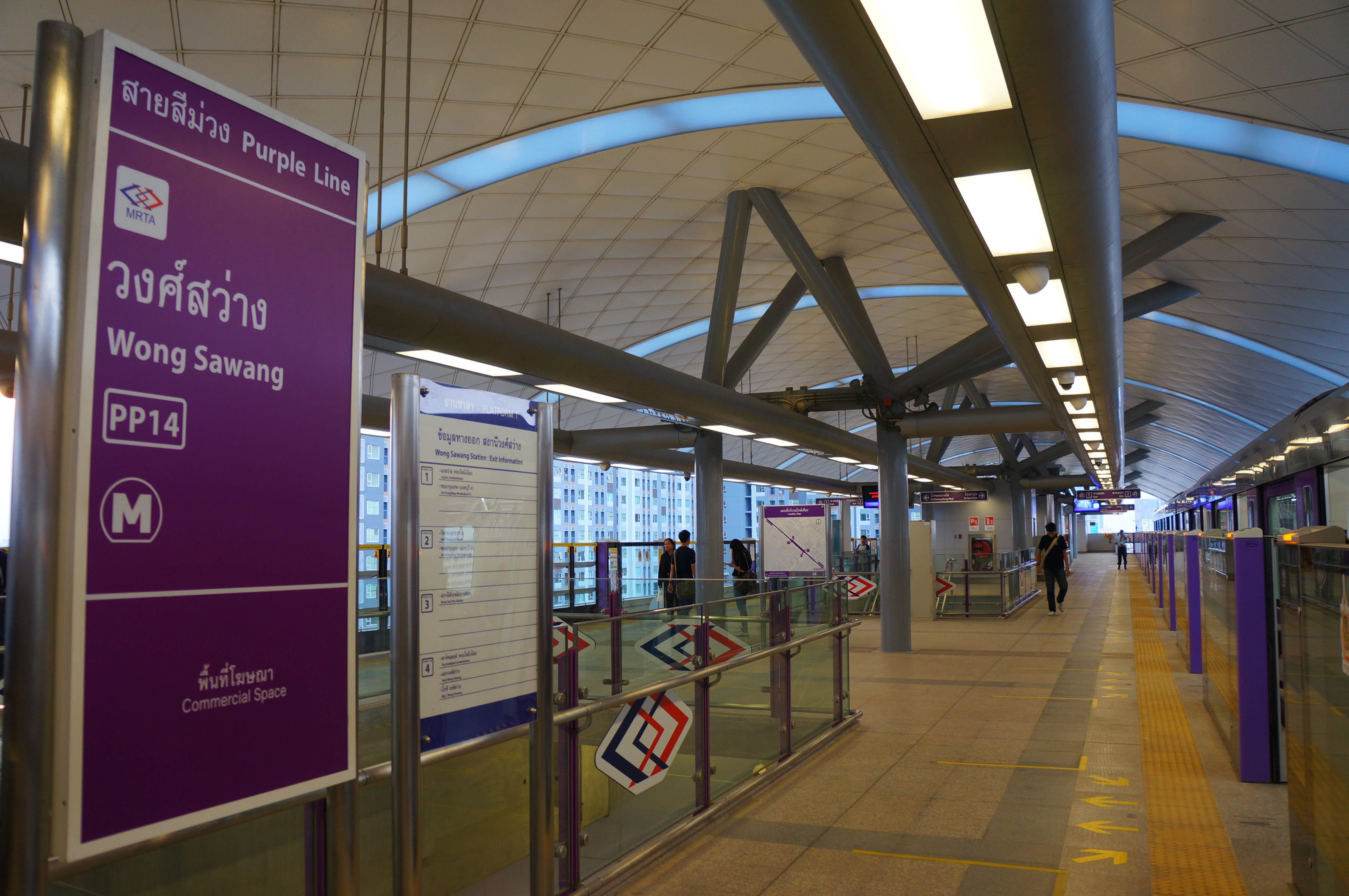 201701 Wong Sawang Station. Do not be confused with Wongwian Yai Station